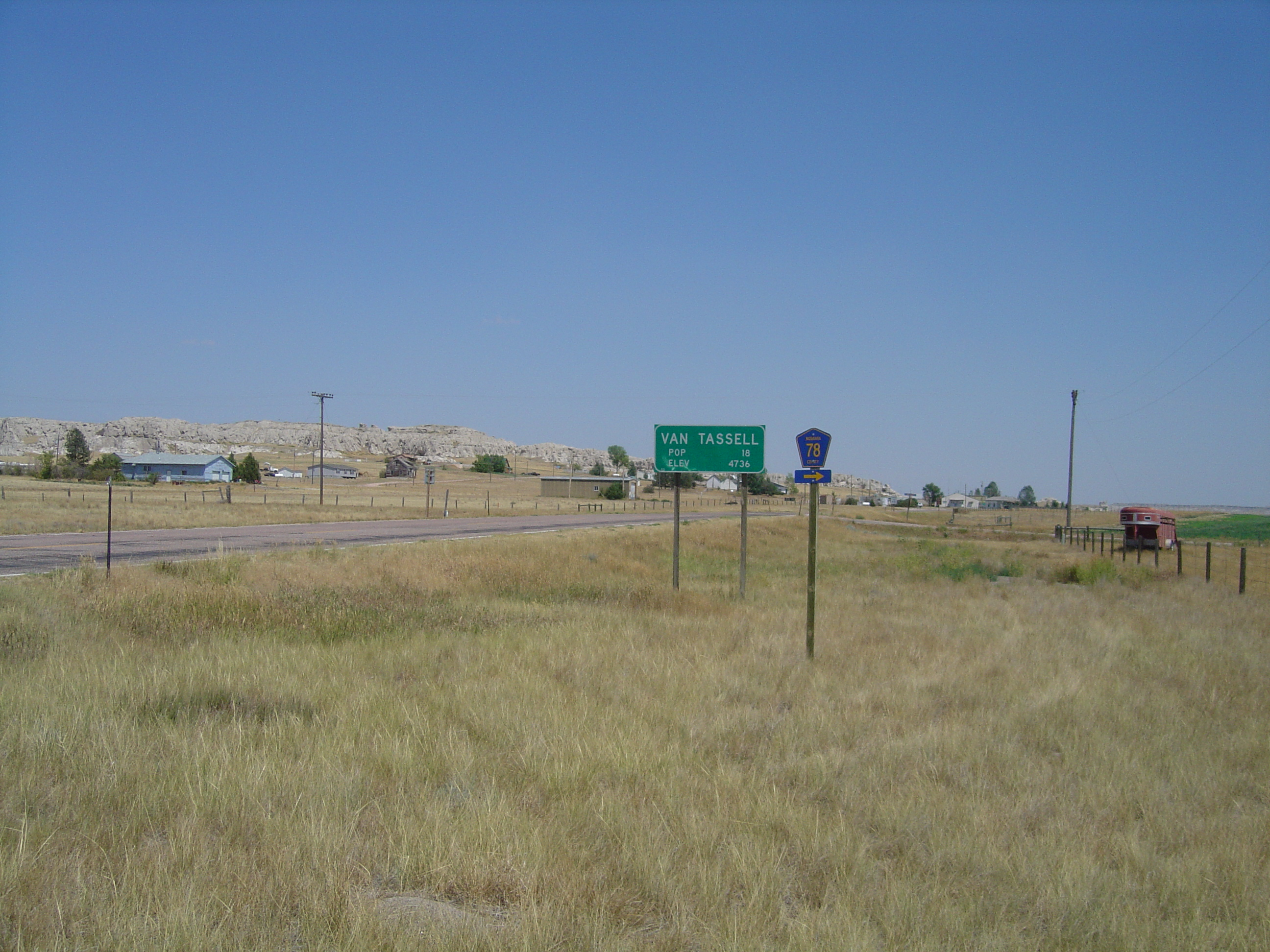 Van Tassell, Wyoming, from Highway 20